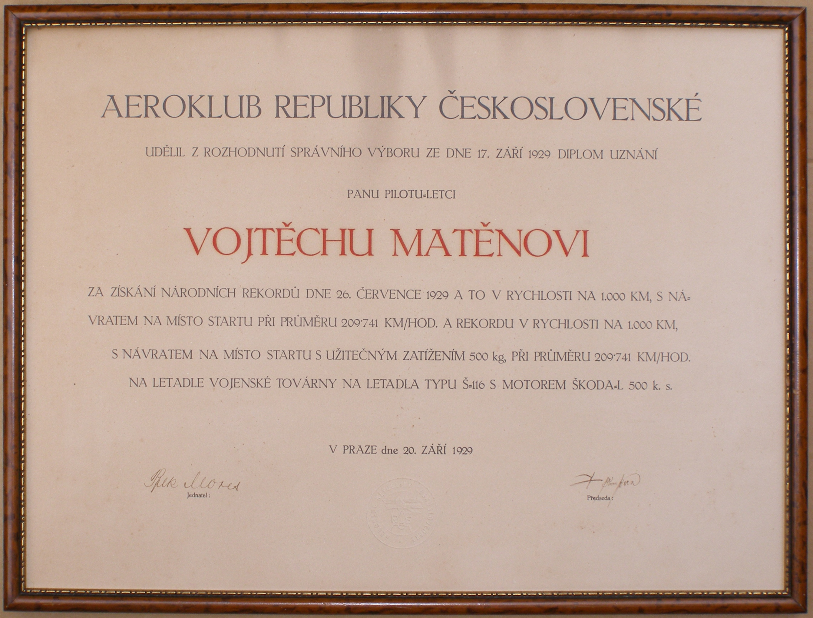 Diploma awarded by the Aero Club of Czechoslovak Republic for a record flight